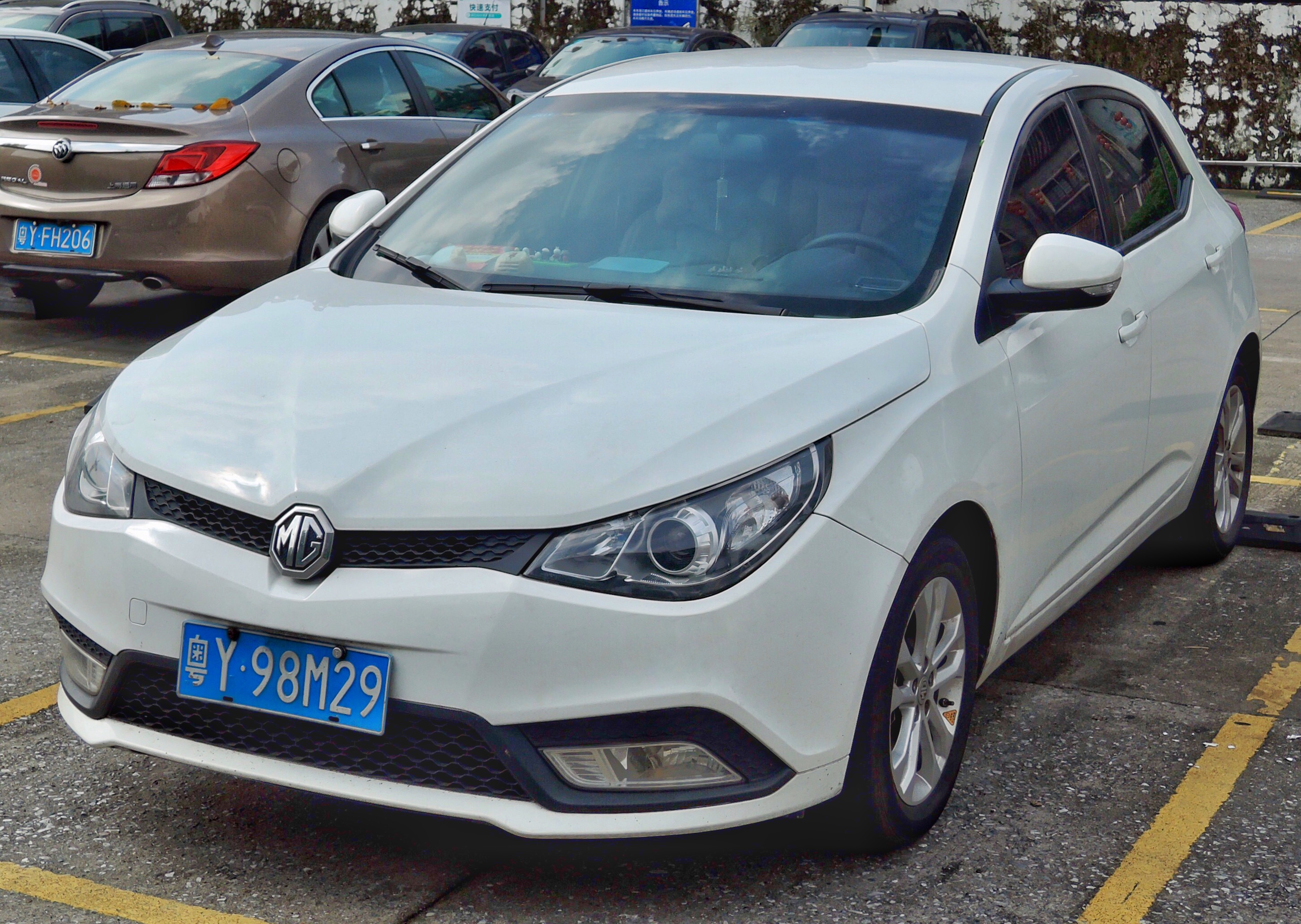 A 2015 MG 5 taken in Foshan, Guangdong province, China. 中文（中国大陆）: 一辆2015年的名爵5，摄于中国广东省佛山市。